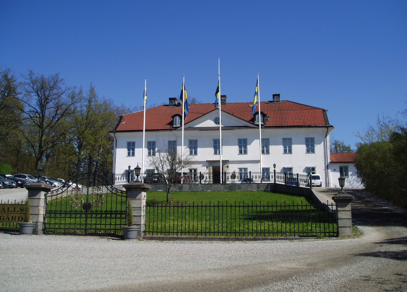 Ulvhäll herrgård, mansion at Strängnäs, Sweden